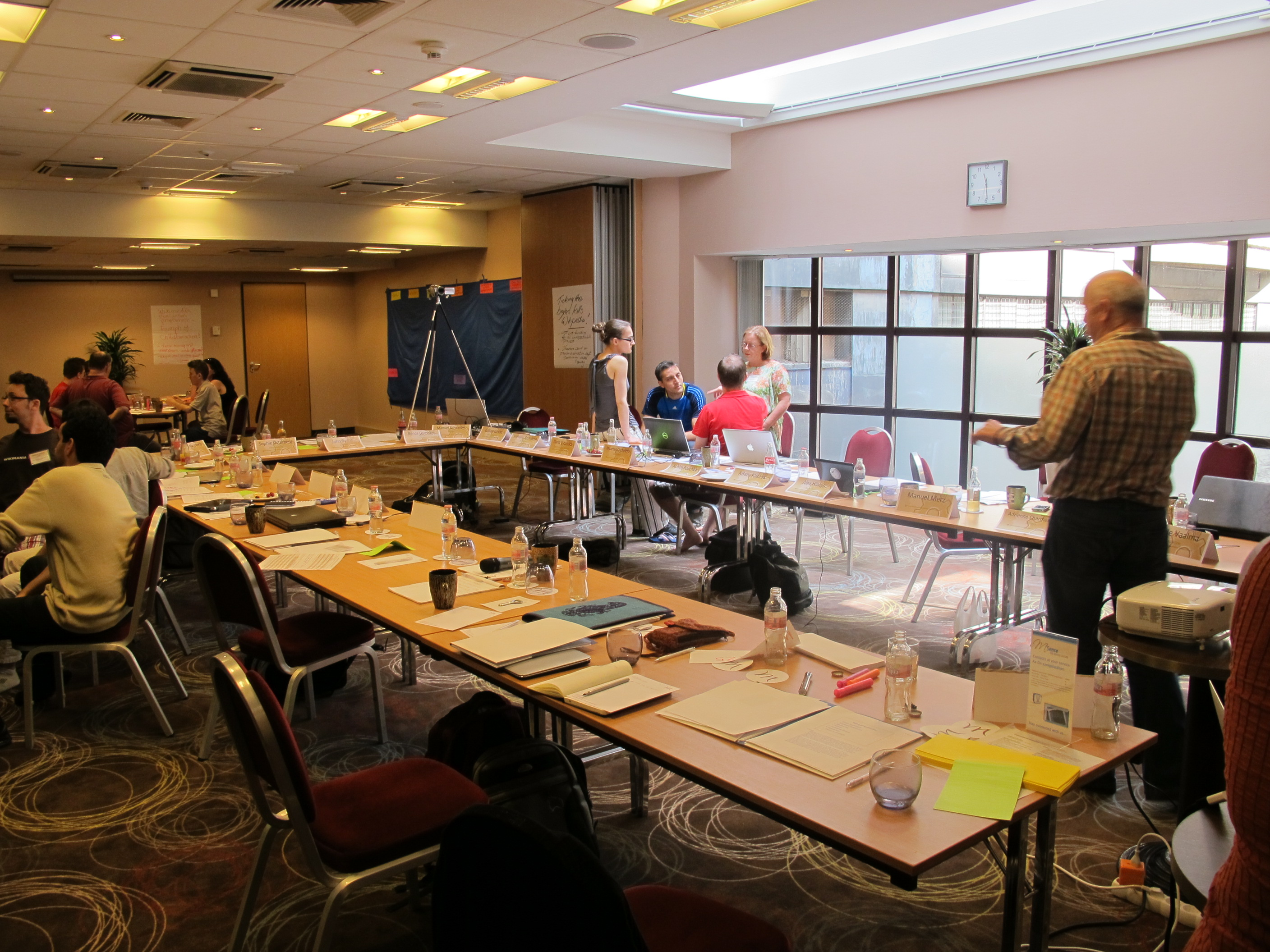 Program Evaluation and Design Workshop